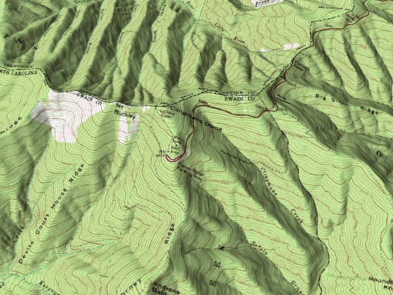 Clingmans Dome, TN or